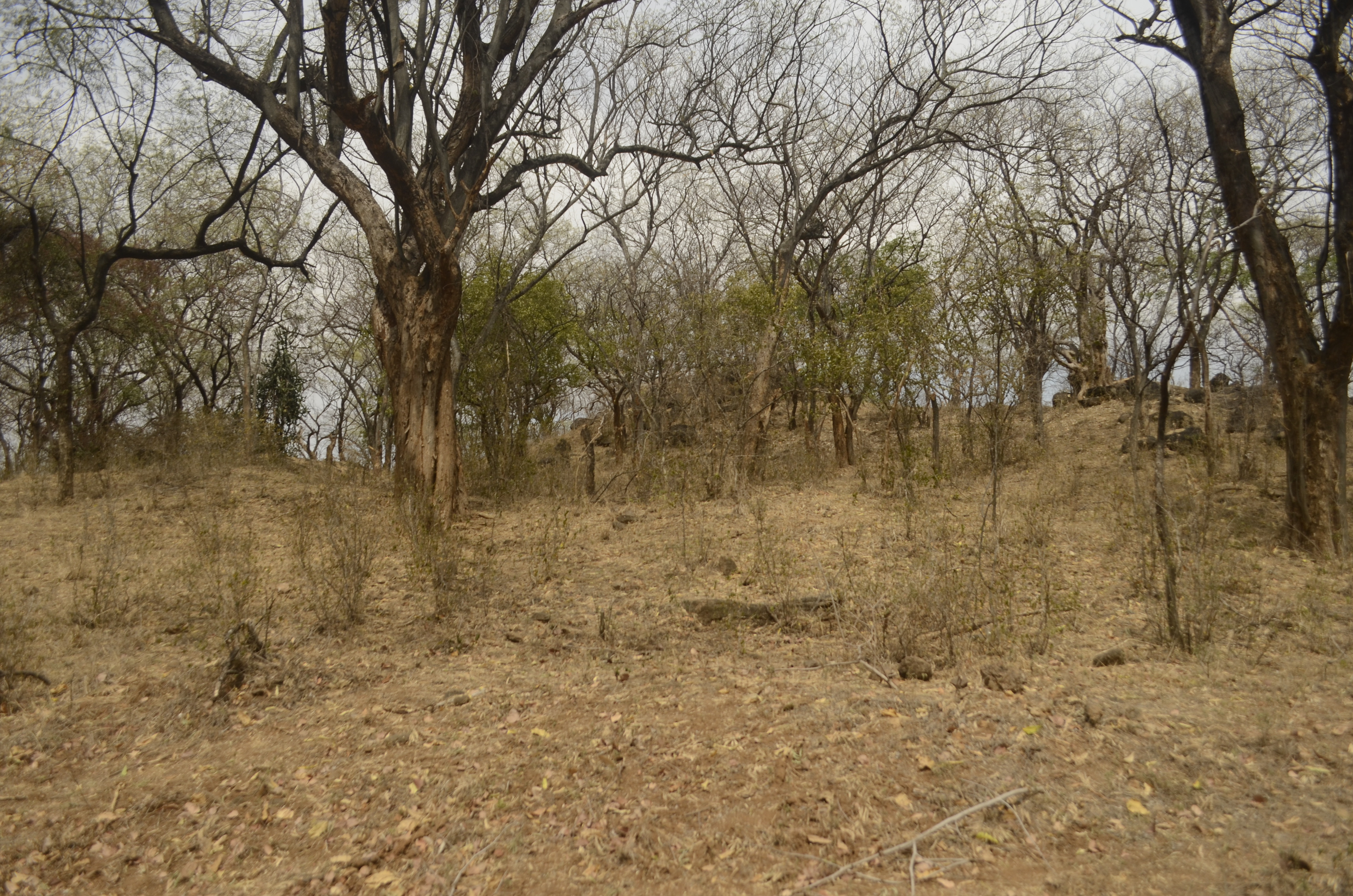 Dry deciduous forest in near Aziyar, Anaimalai Tiger Reserve, southern western ghats_4.